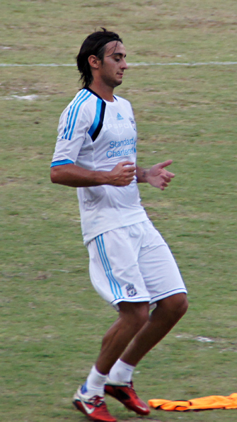 Italian football player, Alberto Aquilani, during Liverpool FC pre-season training in Singapore.